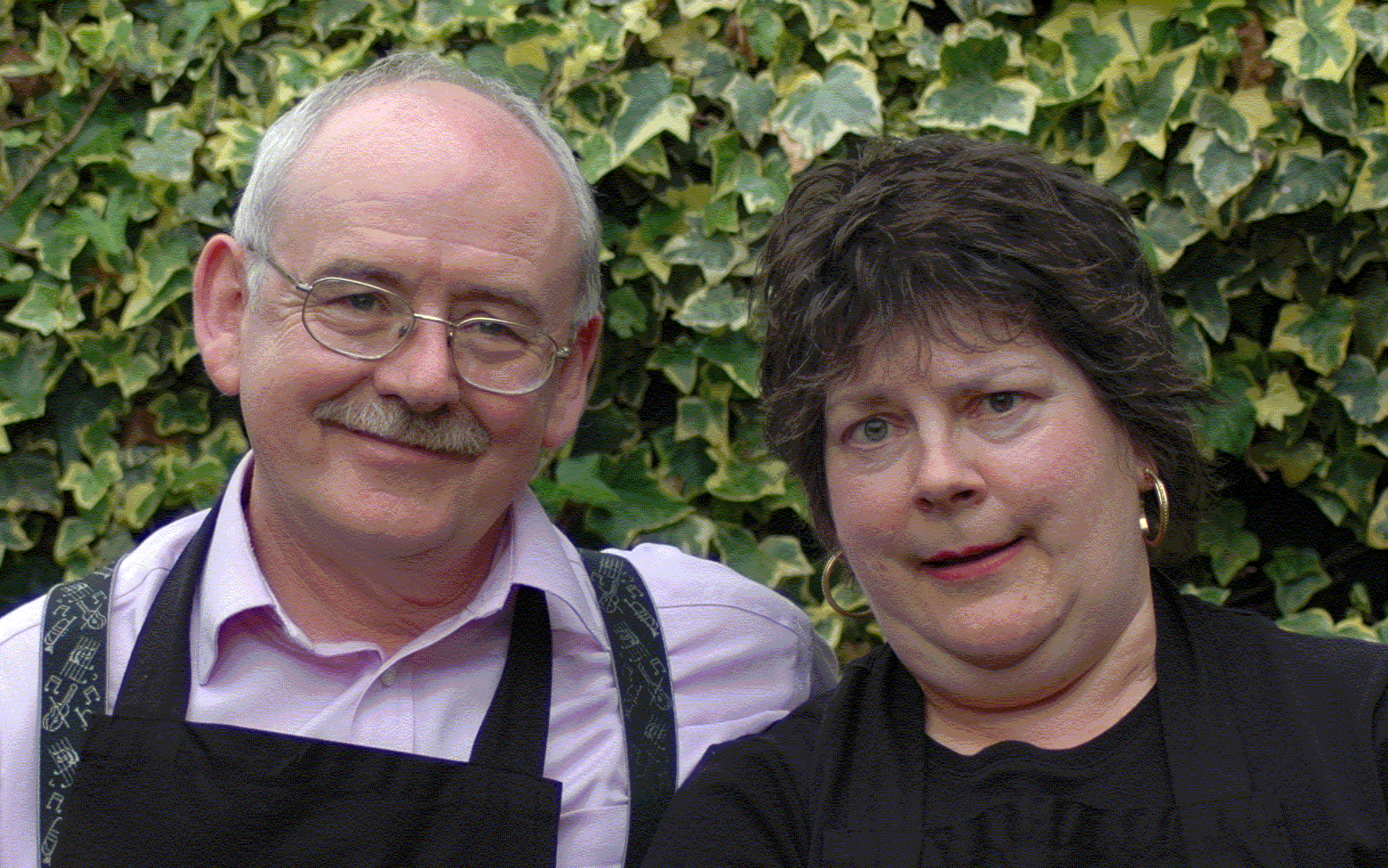 Photo of Joe Andrew (academic) and his wife